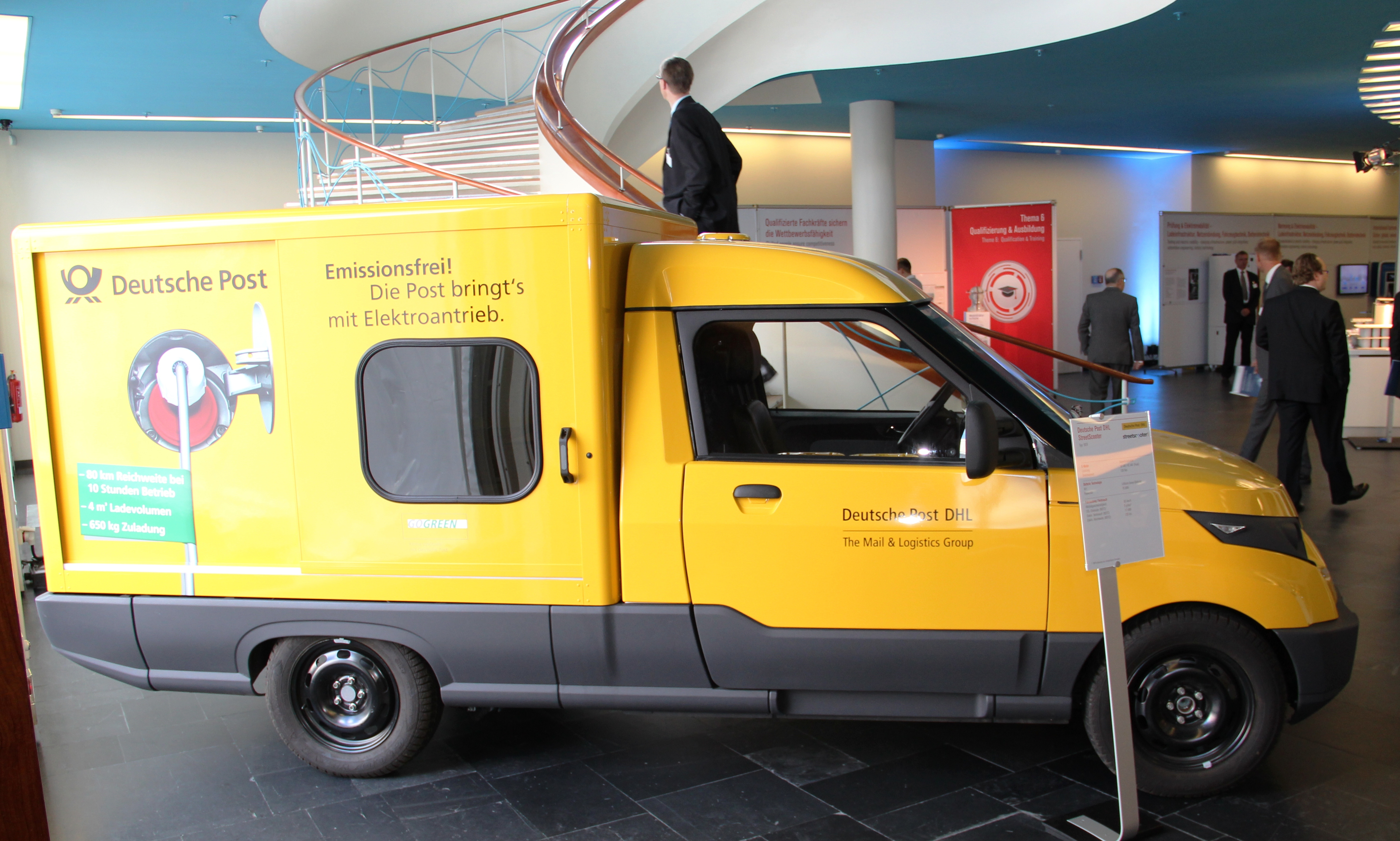 Streetscooter - an electric delivery van for the Deutsche Post, built in Aachen by Talbot Services GmbH